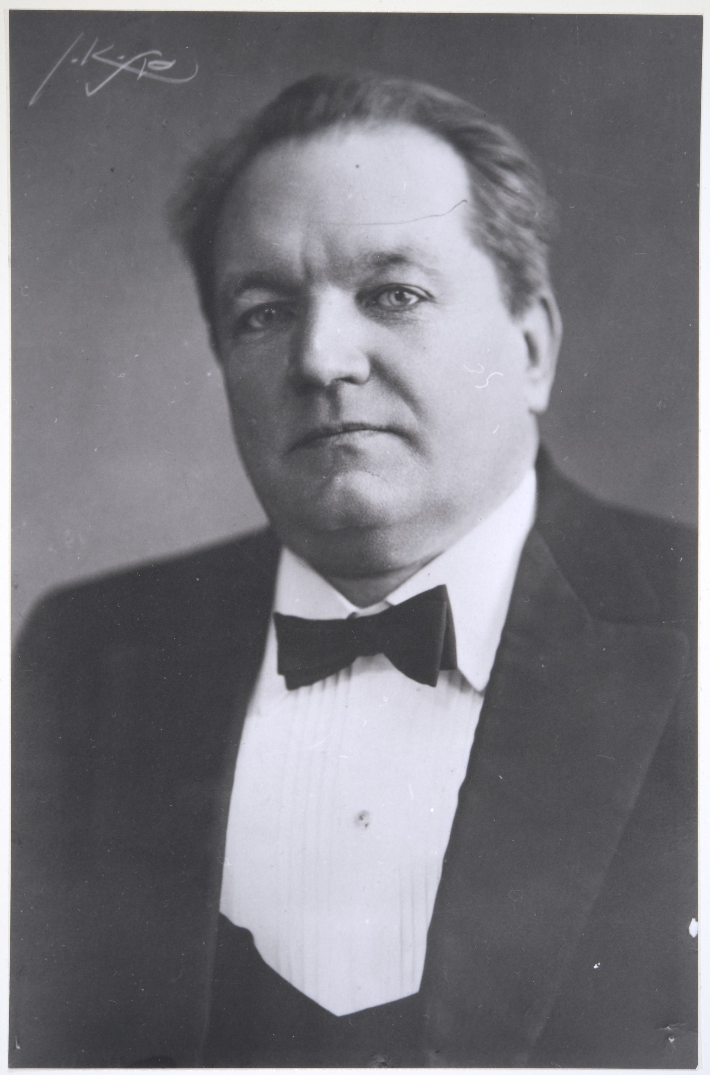 Photograph of the Finnish Occult and Theosophist leader Pekka Ervast (1875–1934).